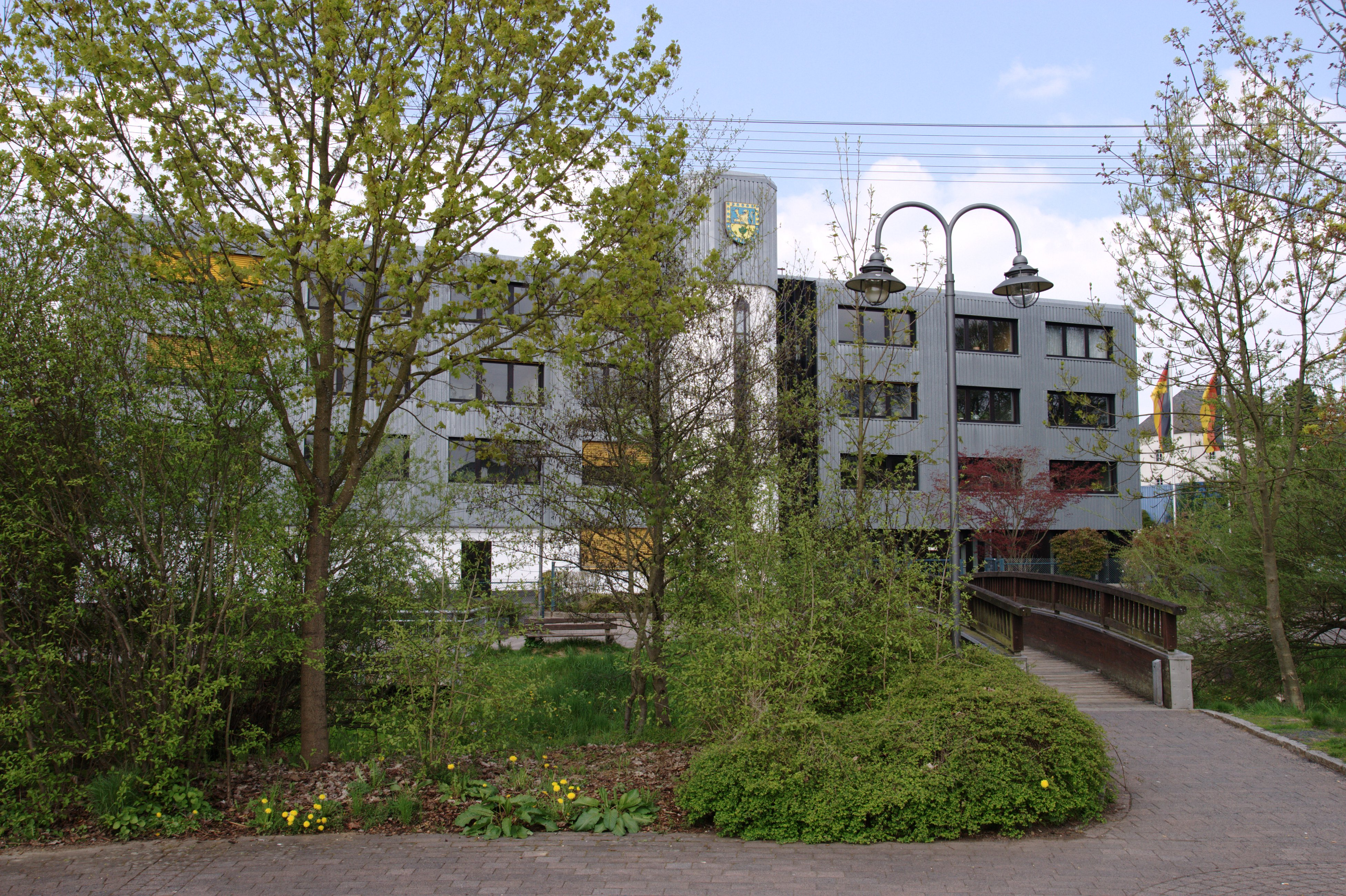 Town Selters, Westerwald, Germany. Administrational building of Verbandsgemeinde Selters. Former administrational building of Schütz Werke